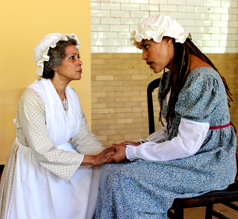 Striving for Freedom is JHC's signature educational experience; it is site-specific play for 4th through 7th graders that engages students in a discussion about the abolition of slavery in New York State. The interactive program examines the lives of two sisters, Mary and Clarinda who were slaves owned and emancipated by members of the Jay family.